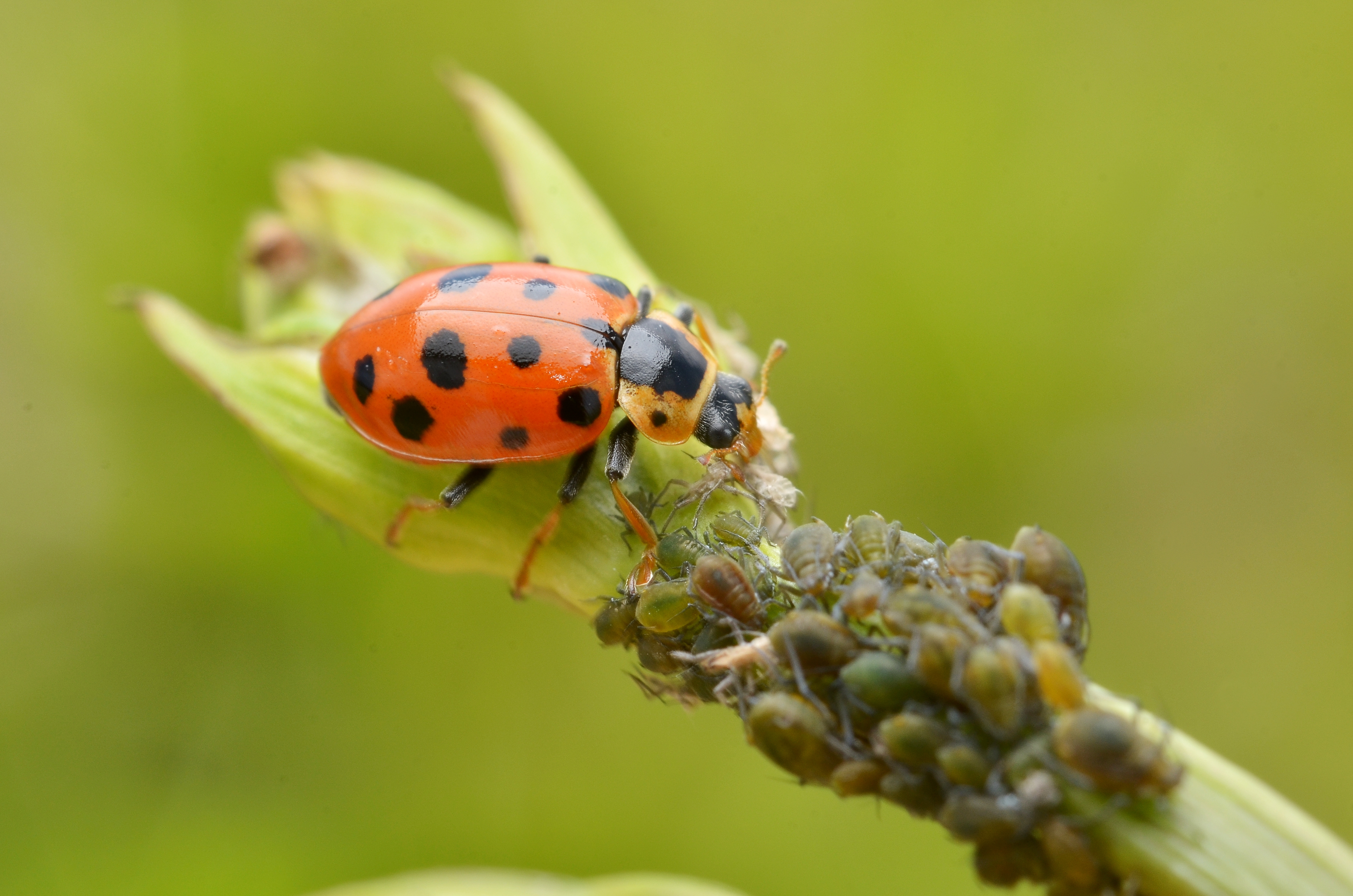 On an Alisma plantago-aquatica infested by aphids